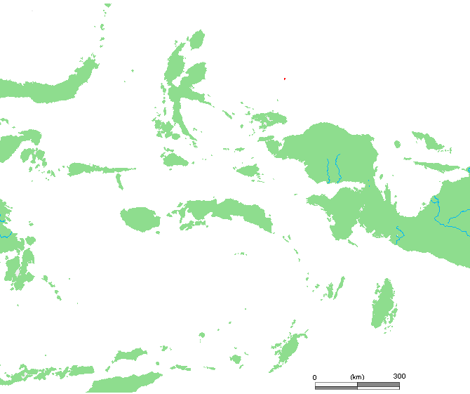 Asia Islands